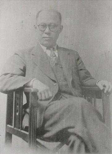 Kim Seong-suk, Korean Indifendence Activist and Politicians